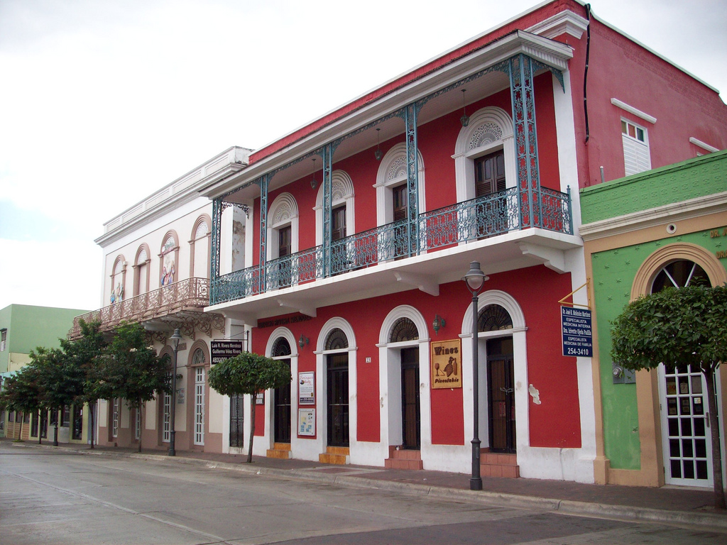 Historic colonial buildings at Ruiz Belvis St. — in Cabo Rojo, Puerto Rico